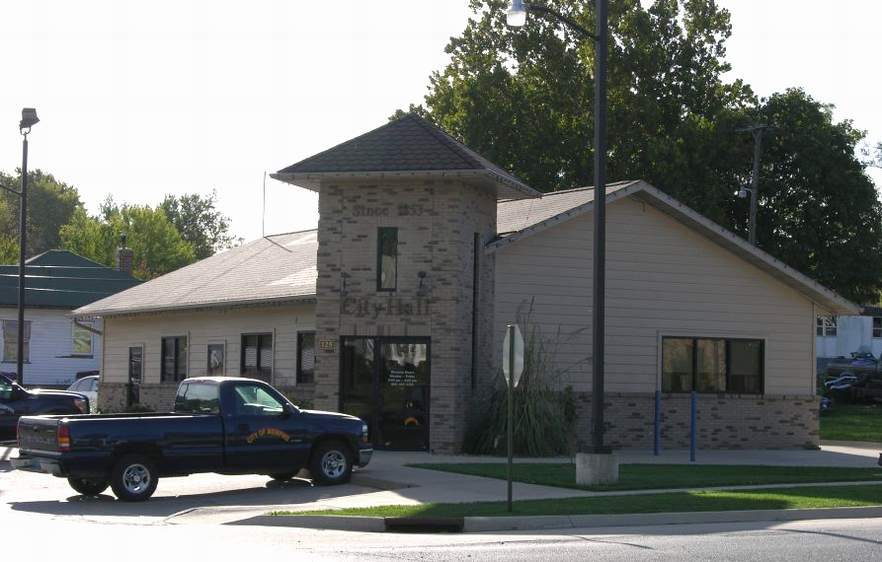 Memphis, Misouri City Hall as it appeared in September, 2012.